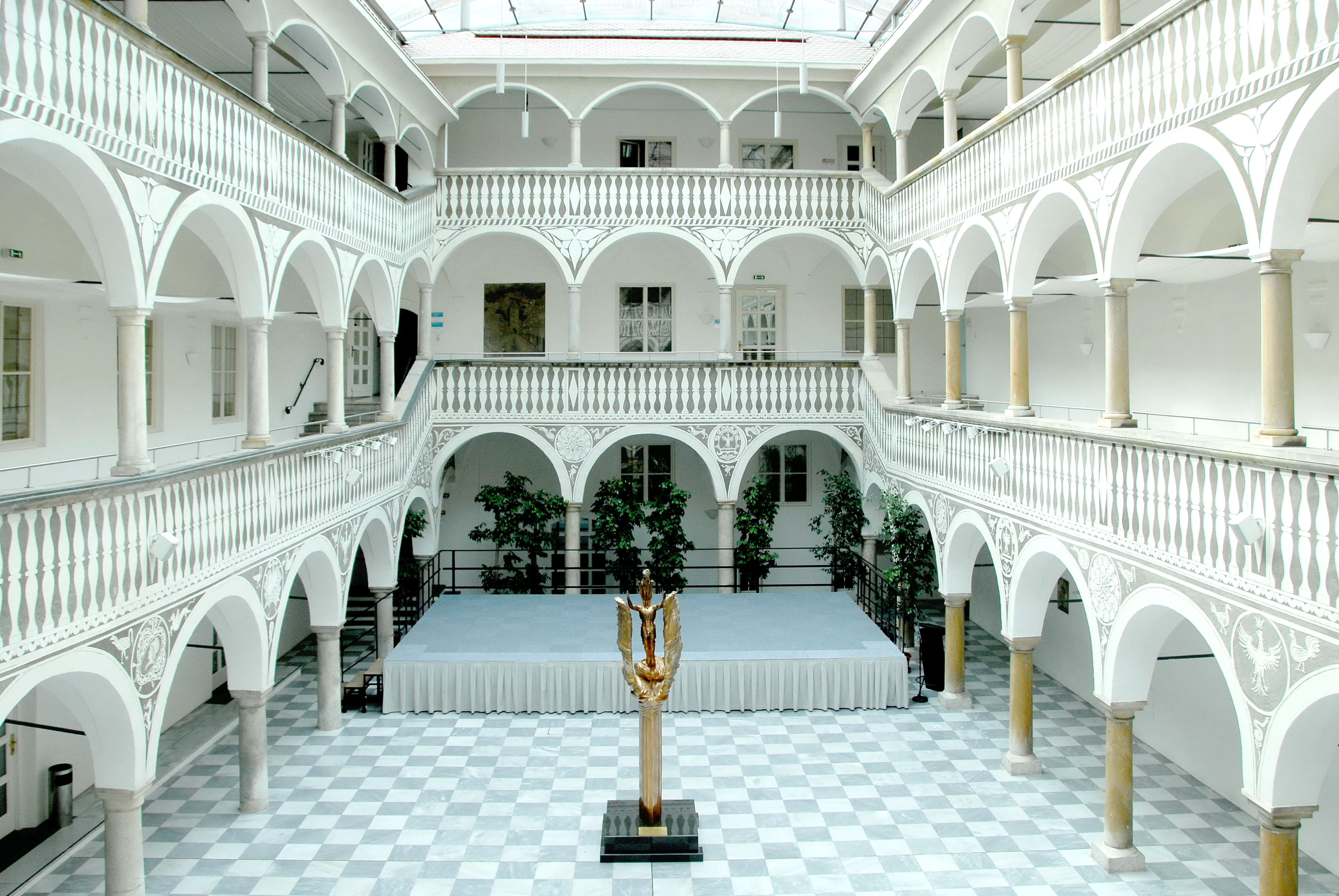 Townhall’s arcade yard on Hauptplatz #1, city St. Veit an der Glan, district Sankt Veit, Carinthia, Austria, EU